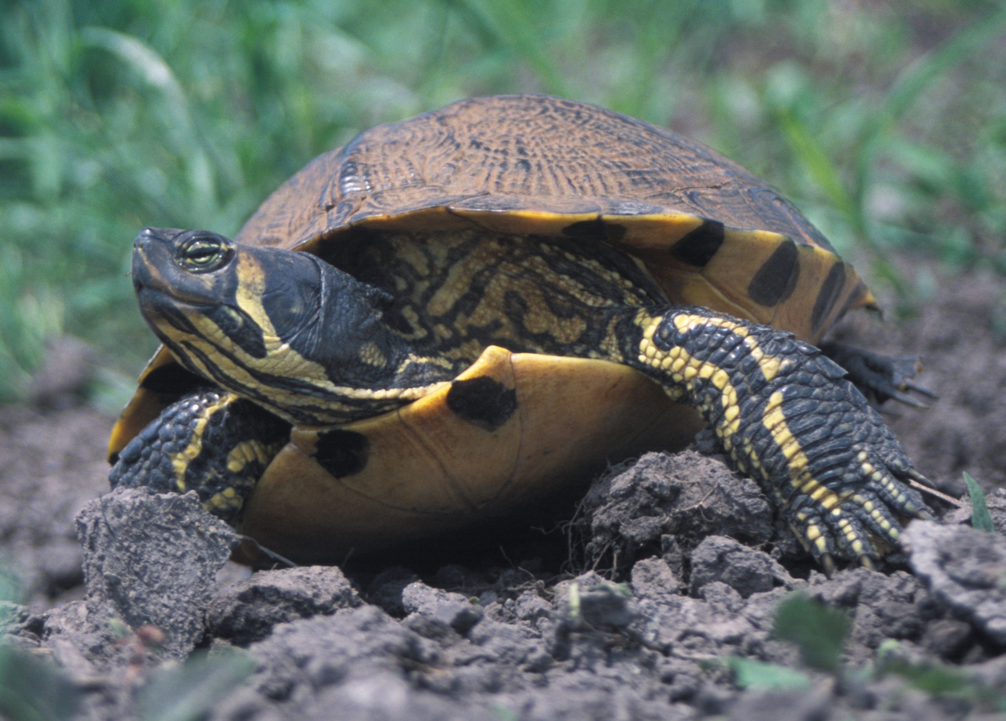 Yellow-bellied slider (Trachemys scripta scripta)